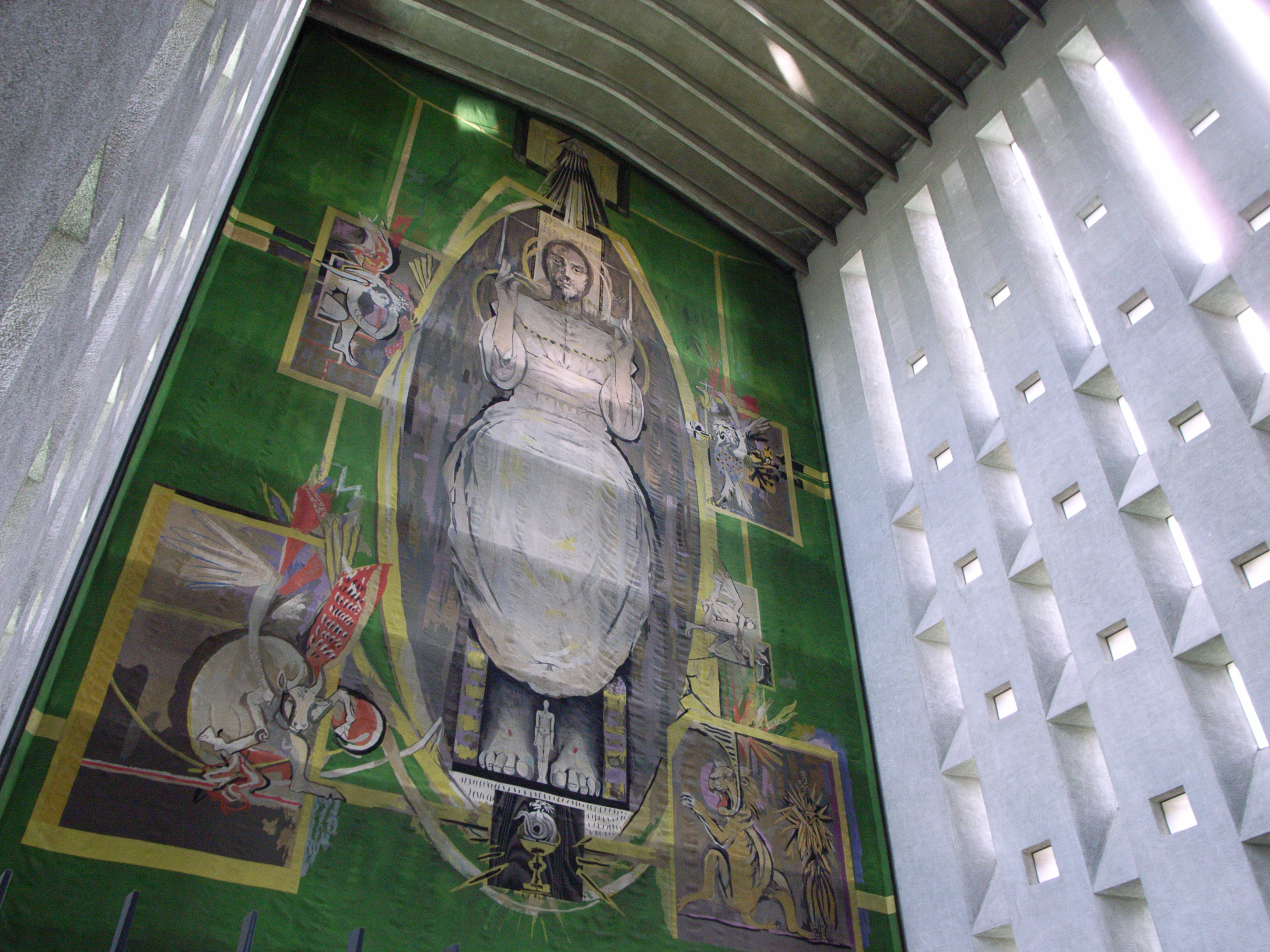 The large tapestry in Coventry Cathedral, Coventry, West Midlands, England. Tapestry was designed by Graham Sutherland.